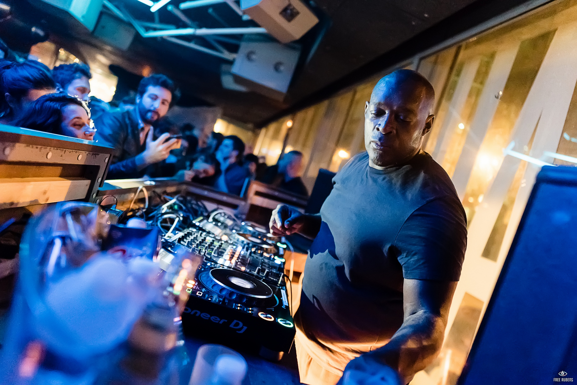 Kevin Saunderson at the Detroit Love Party, at the club "Nuits Fauves"